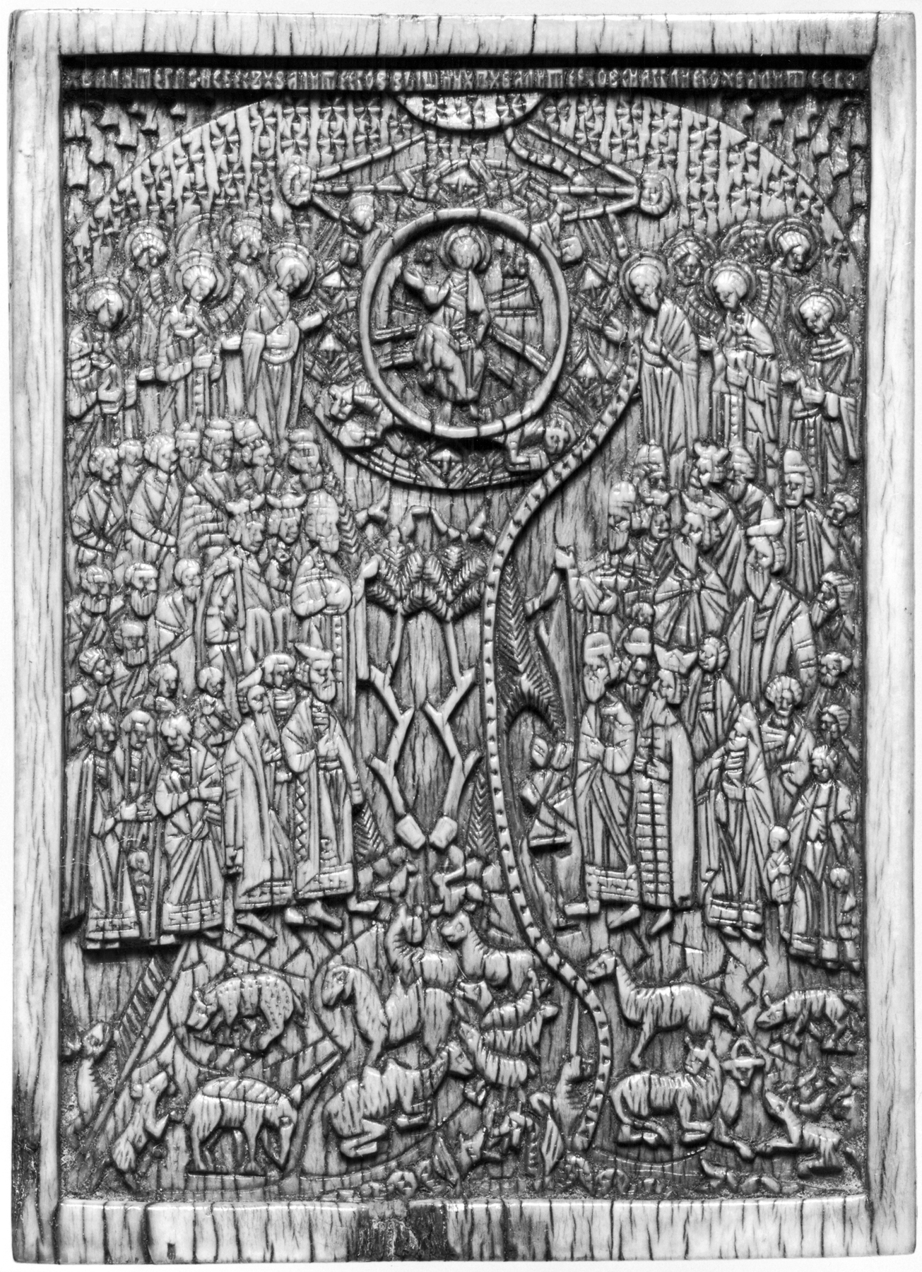 This ivory shows Jesus Christ as God enthroned in heaven among the sun, moon, and shining stars. Four creatures (symbolizing the Evangelists), cherubim, the Virgin, Saint John the Baptist, and a multitude of angels surround him. Below, humanity and various animals of the earth and sea are giving praise to him. Compositions illustrating Psalm 148, as the present ivory does, are first attested in Byzantine wall-paintings of the mid-14th century. Russian ivory carvings very similar to this one are preserved in the Russian Museum, Saint Peterburg (inv. DRK 40) and in the Kunstsammlungen, Weimar (inv. A 27c).